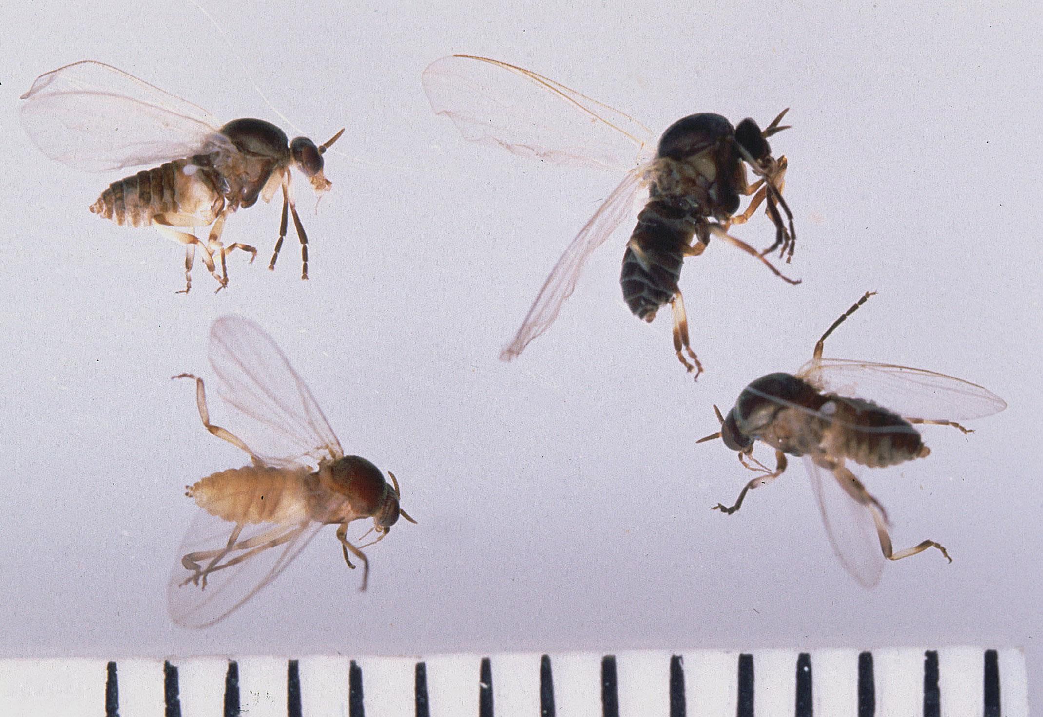 Simulium bloodsucking dipteran flies.